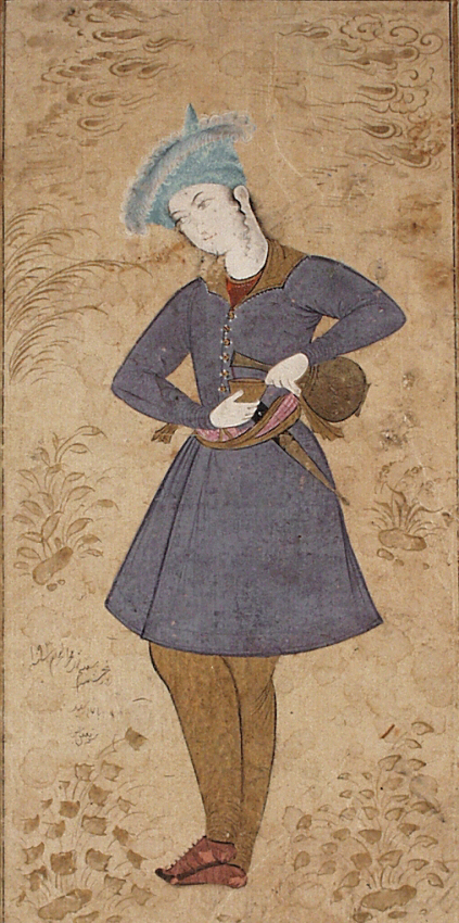 Iran, Isfahan, AH 7 Muharram 1093/January 16, 1682 Manuscripts Ink, opaque watercolor, and gold on paper The Nasli M. Heeramaneck Collection, gift of Joan Palevsky (M.73.5.570) Islamic Art Currently on public view: Ahmanson Building, floor 4